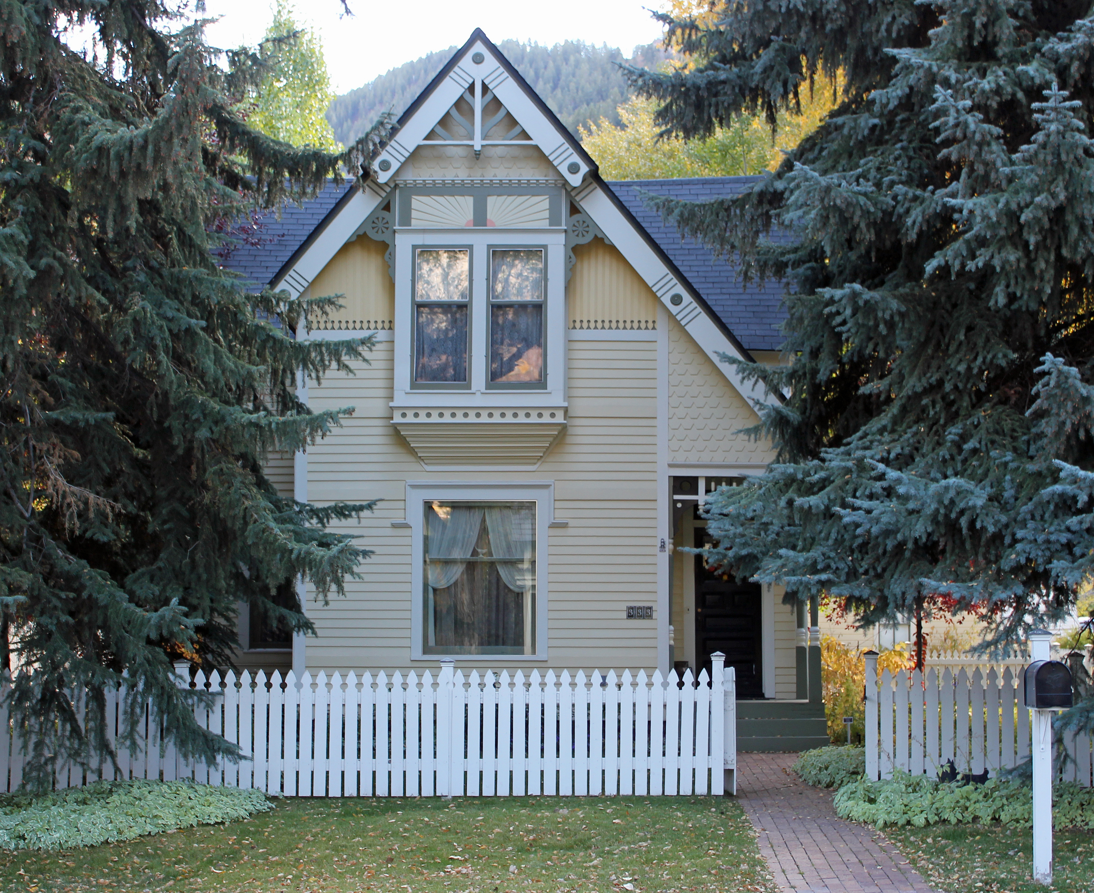 The D.E. Frantz House, located at 333 West Bleeker Street in Aspen, Colorado. The property is listed on the National Register of Historic Places.